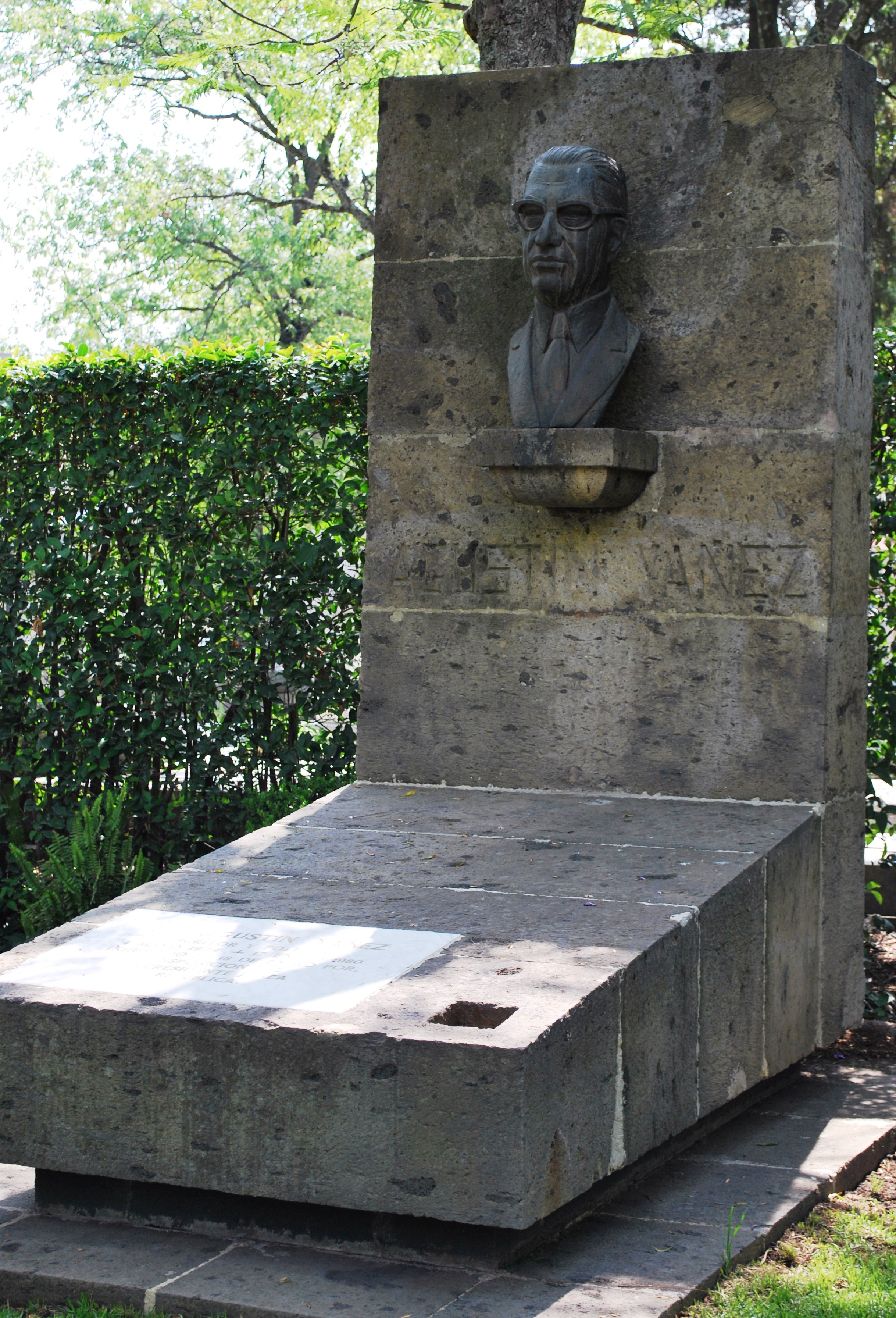 Tomb of Agustin Yañez in the Panteon Civil de Dolores cemetery in Mexico City